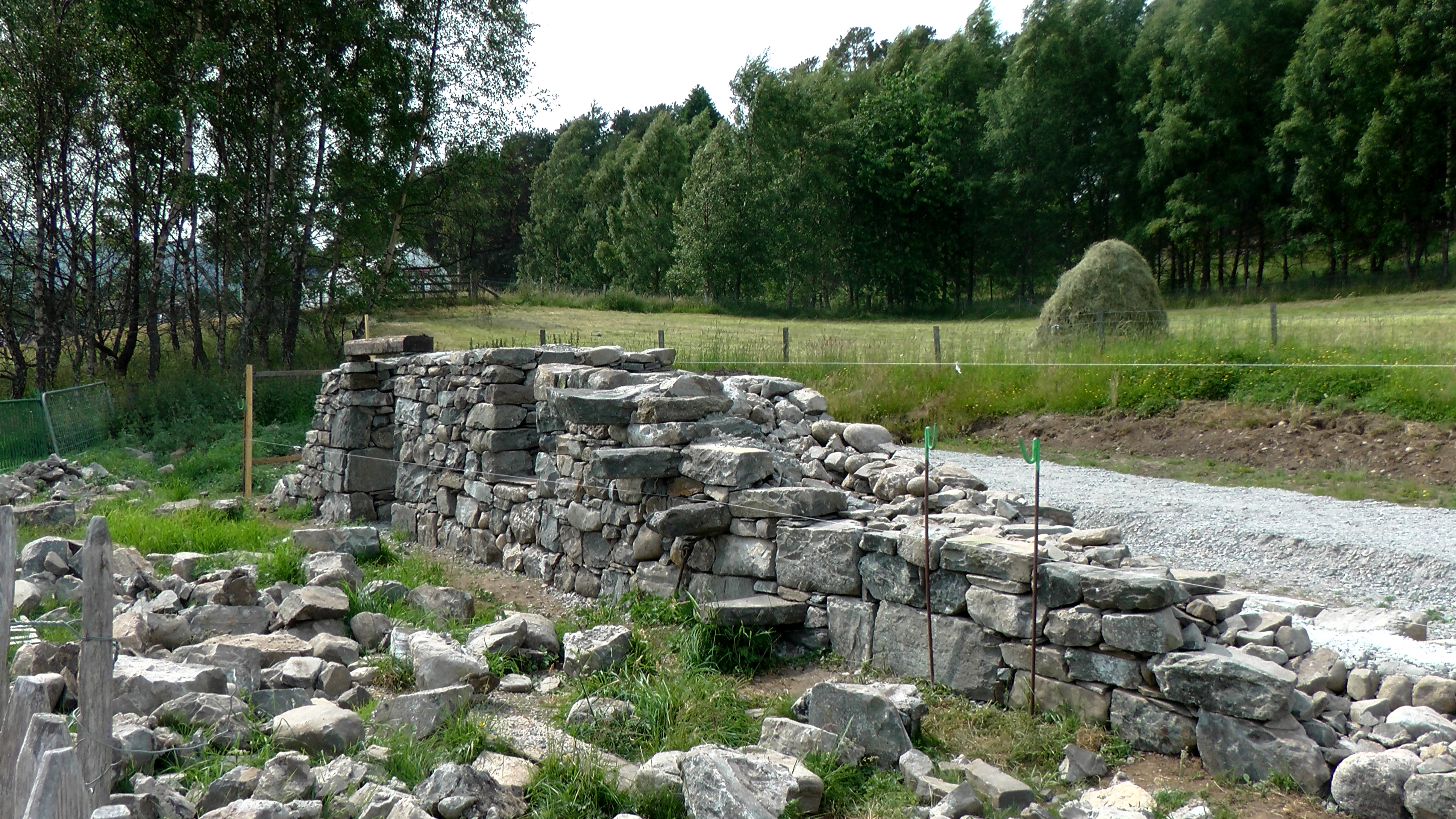 Second rebuilding of sabel Frances Grant's blackhouse cottage